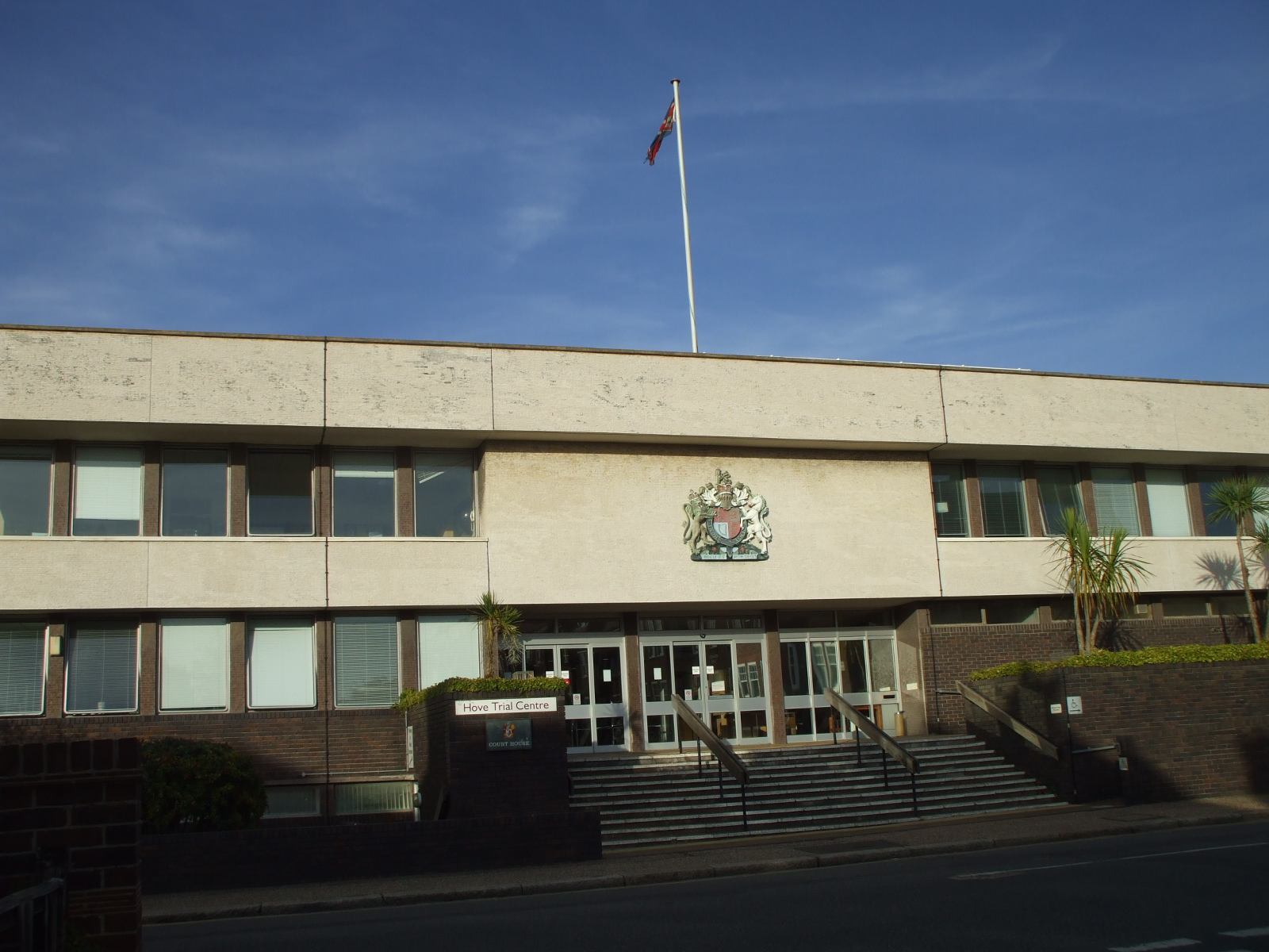 The Hove Crown Court building or "Hove Trial Centre", adjoining Hove Police Station.